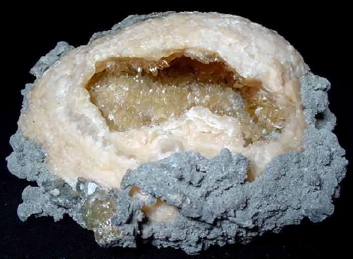 Calcite Locality: Rucks Pit, Fort Drum, Okeechobee County, Florida, USA (Locality at ) A SUPERB, FULLY COMPLETE fossilized mollusc with a vug lined with beautiful amber dogtooth calcite crystals. New material from Florida! 12.5 x 9.8 x 5.5 cm